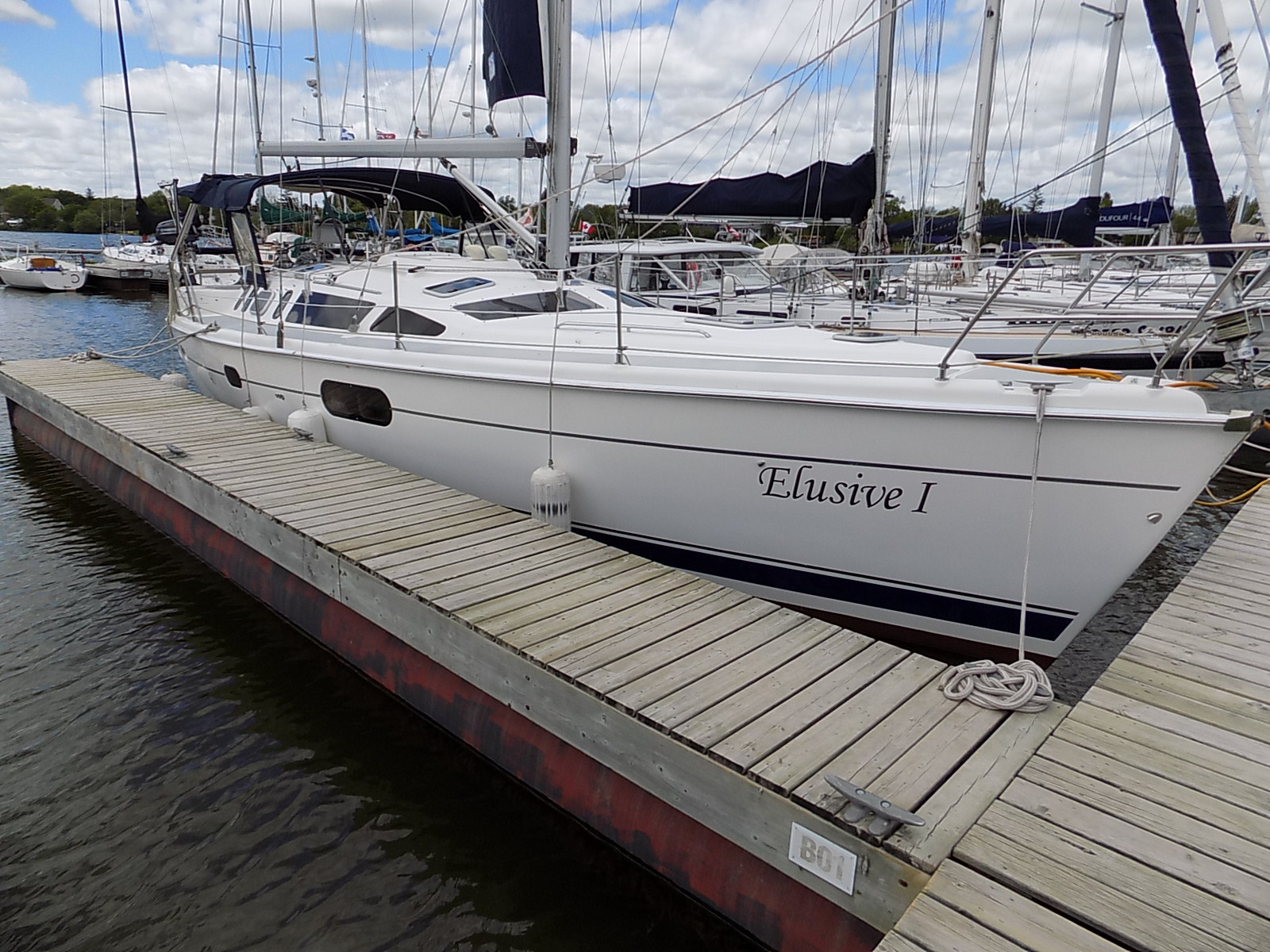 A Hunter 410 sailboat named Elusive I